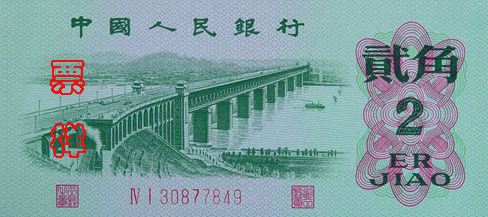 Third series of the renminbi 2jiao(sample)